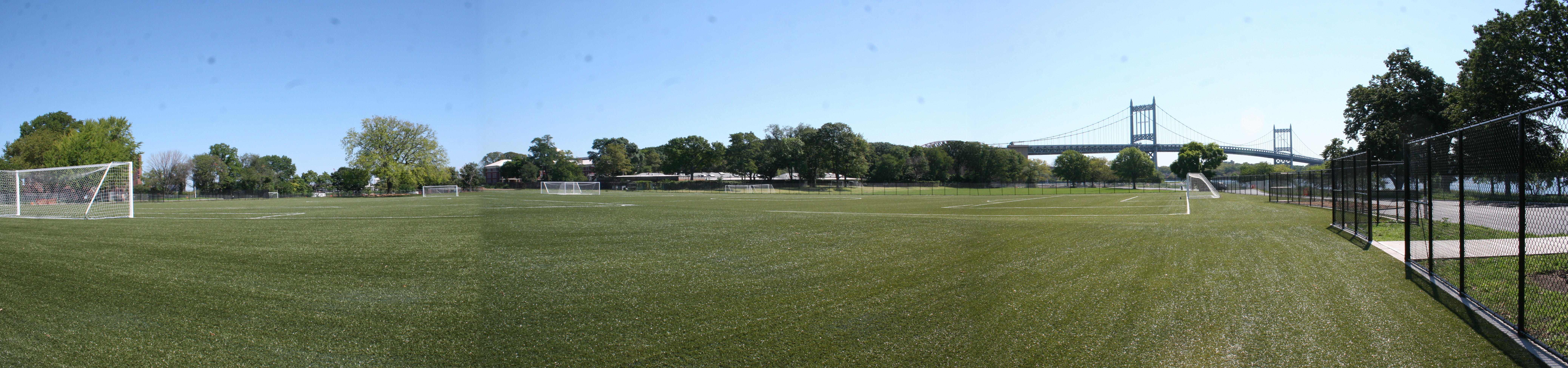 Wards Island